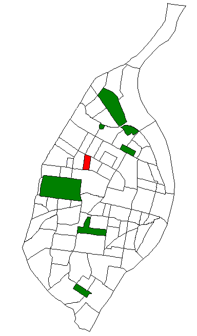 Map of St. Louis neighborhood #53